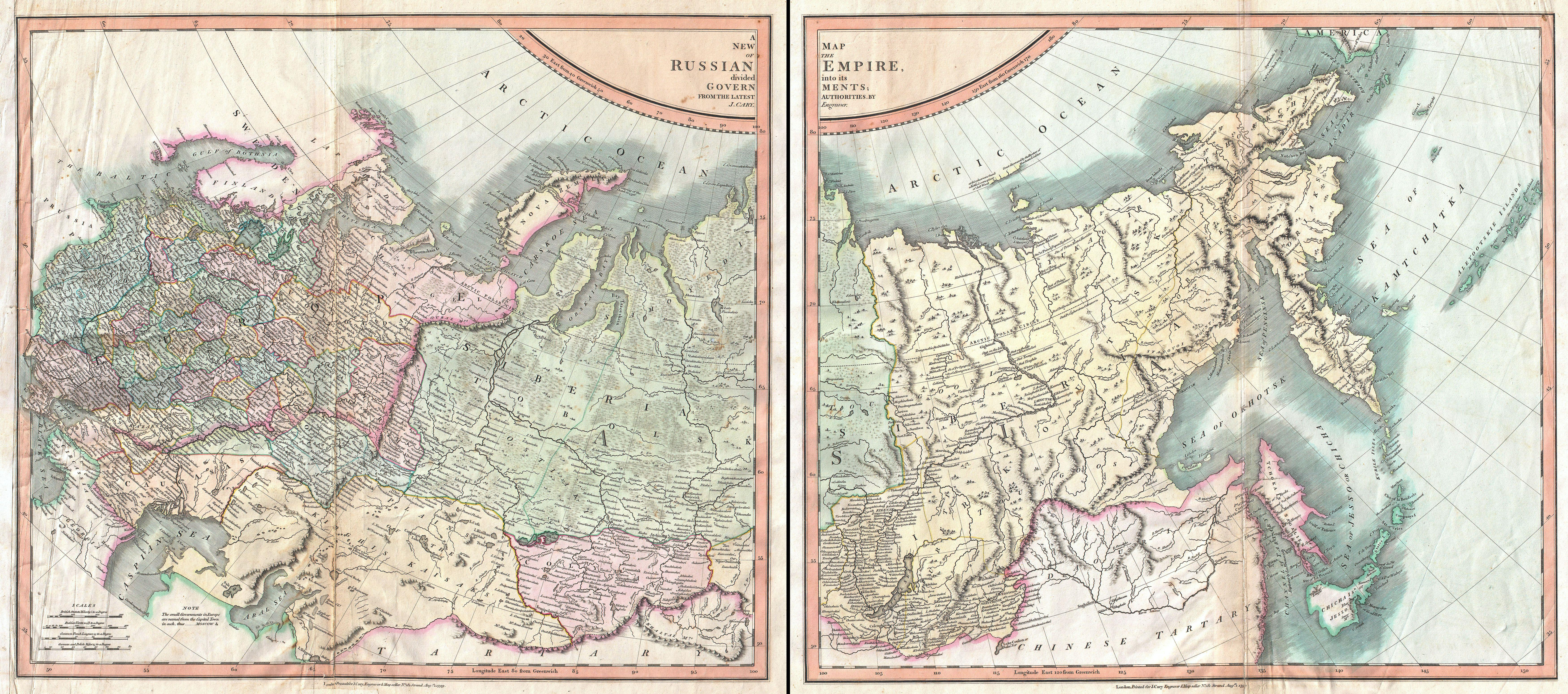 An excellent example of John Cary’s extremely rare two part 1799 Map of the Russian Empire. This is considered one of the first accurate maps of the Russian Empire. Covers from the Baltic Sea to the Aleutians Islands with extraordinary attention to detail – one of Cary’s hallmarks. In addition to cities and provinces, which are shown with color coding, this map notes geographical features including mountains, rivers, plains, swamps and forests. Offers some interesting annotation regarding Russian explorations and discoveries in the Arctic. A wonderful map. Prepared in 1799 by John Cary for issue in his magnificent 1808 New Universal Atlas .